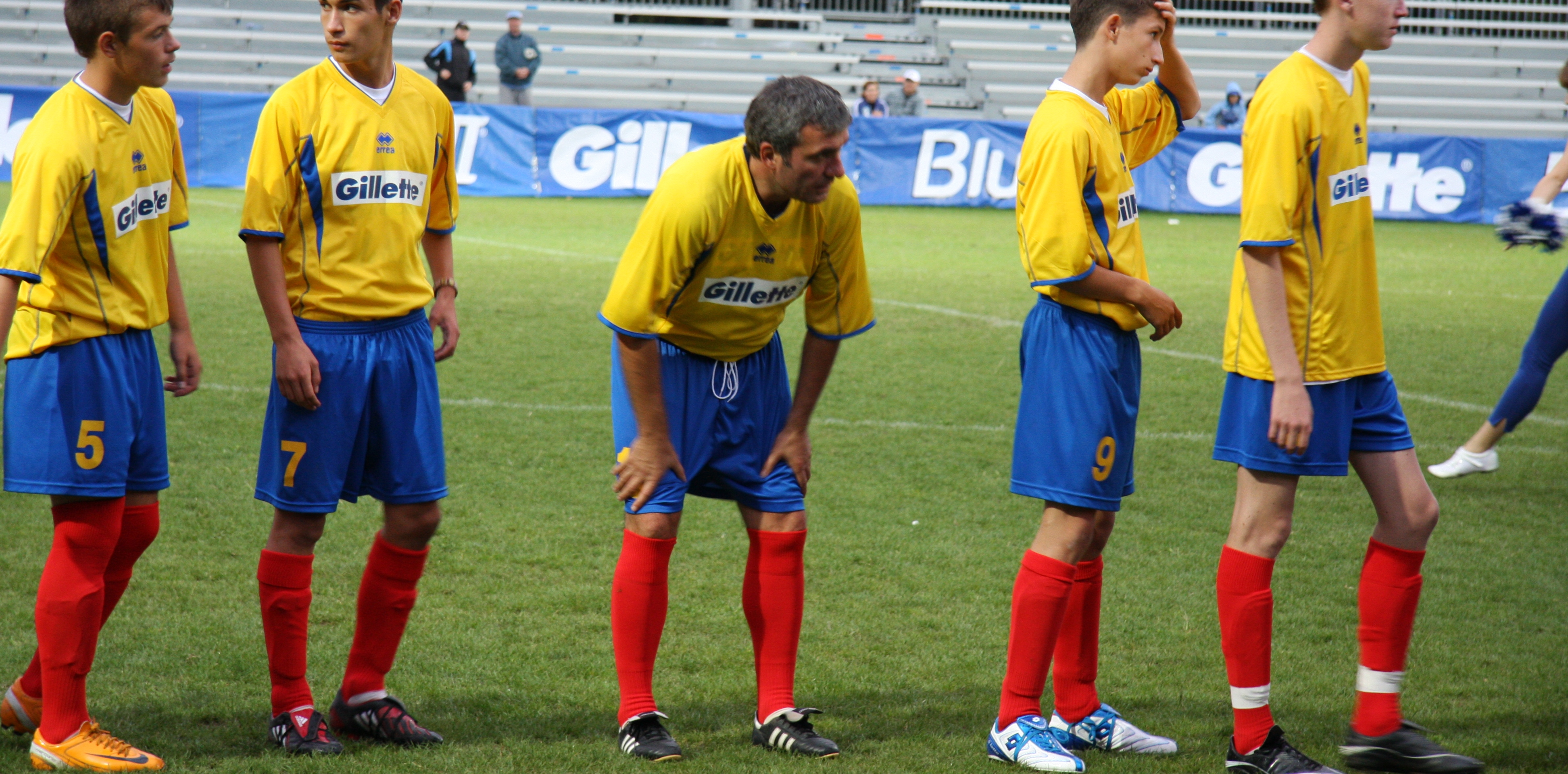 Hagi joining the Romania Youth team on the show off game marking the end of the tournament